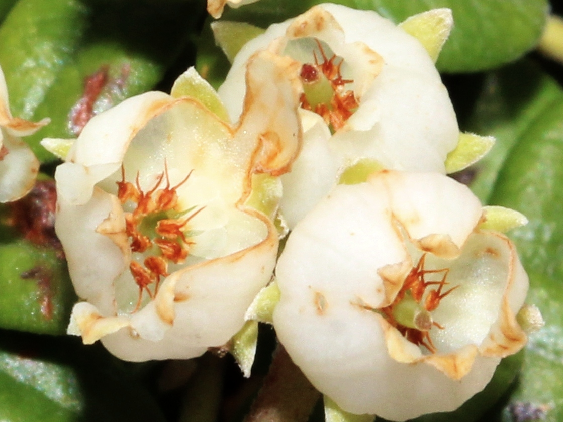 Arcterica nana (Maxim.) Makino, with flower in Mount Haku, Japan.